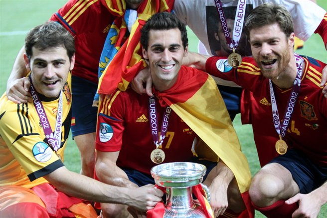 Iker Casillas, Álvaro Arbeloa and Xabi Alonso with Euro 2012 trophy